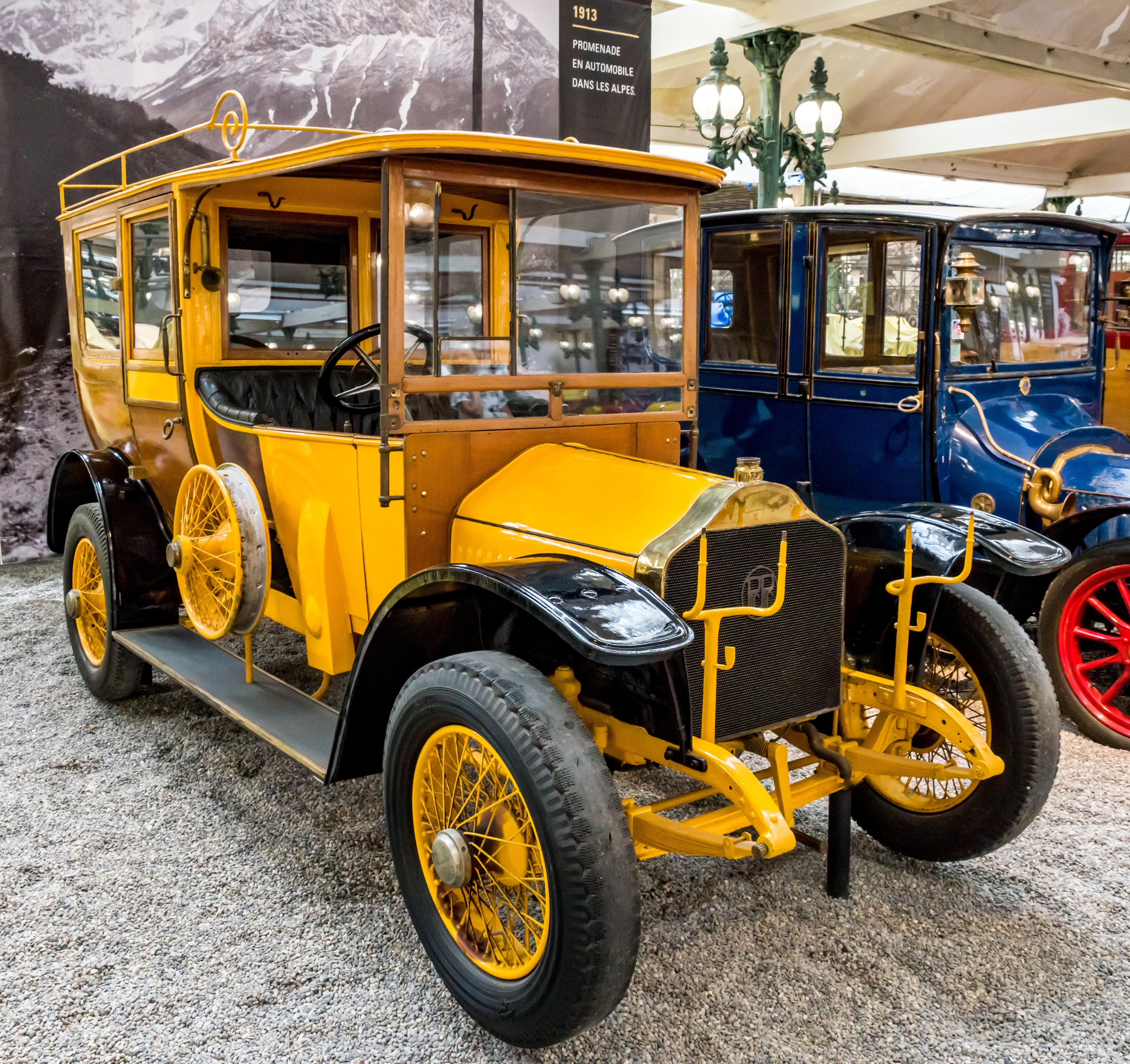 pictures from the Cité de l’Automobile – Musée National – Collection Schlump in Mulhouse, France ptictures from the 10. may 2018